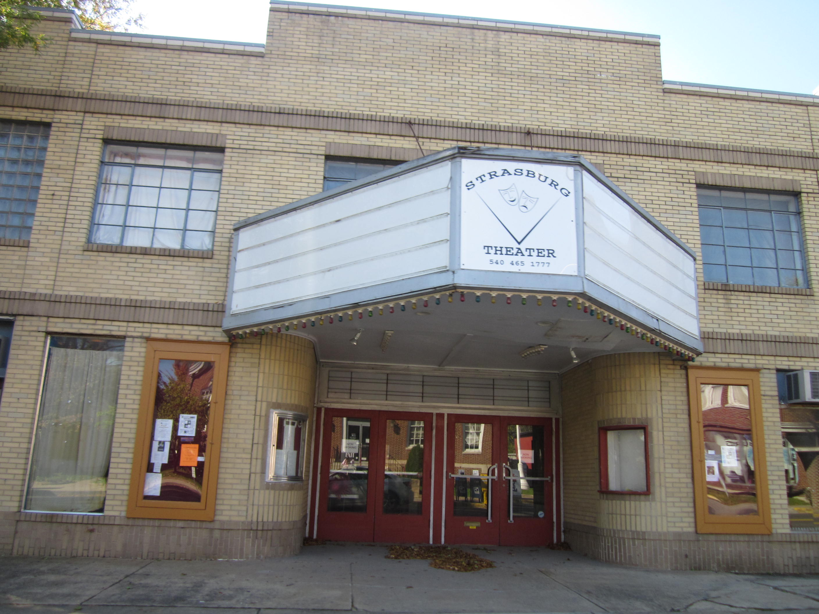 A view of the Stasburg Theater at Strasburg Junction, Strasburg, VA, USA